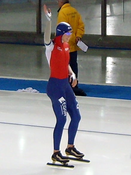 Annette Gerritsen (NED) befor 1000 meters world cup speedskating race in Berlin, Germany.